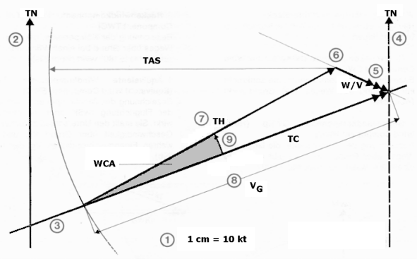 Vector diagram of the wind triangle, showing relationship among air vector, wind vector and ground vector. Useful for navigation